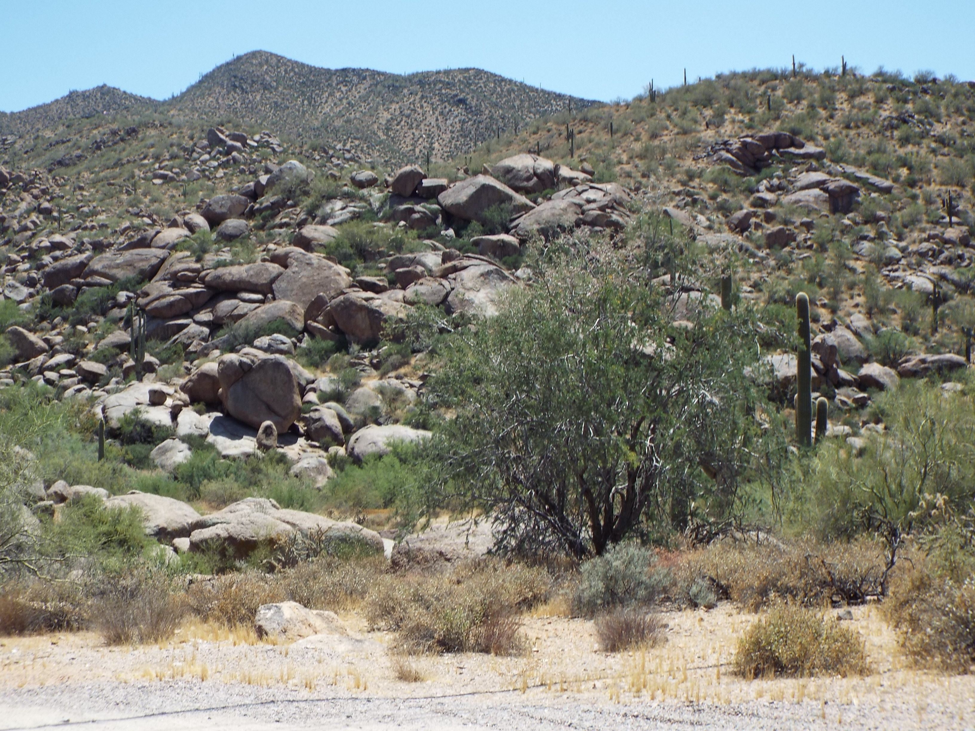 The Black Mountains of Cave Creek, Arizona where the historic 1865 Stoneman Military Trail cut through.